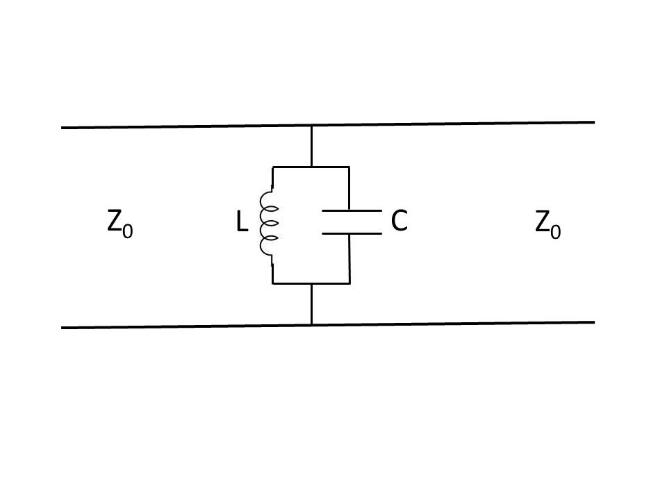 Bandpass Transmission Line Filter